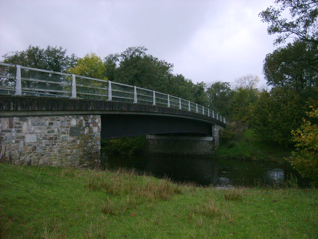 Gwarafog Bridge, Garth Gwarafog Bridge takes the B4519 over the River Irfon at Garth, Powys.